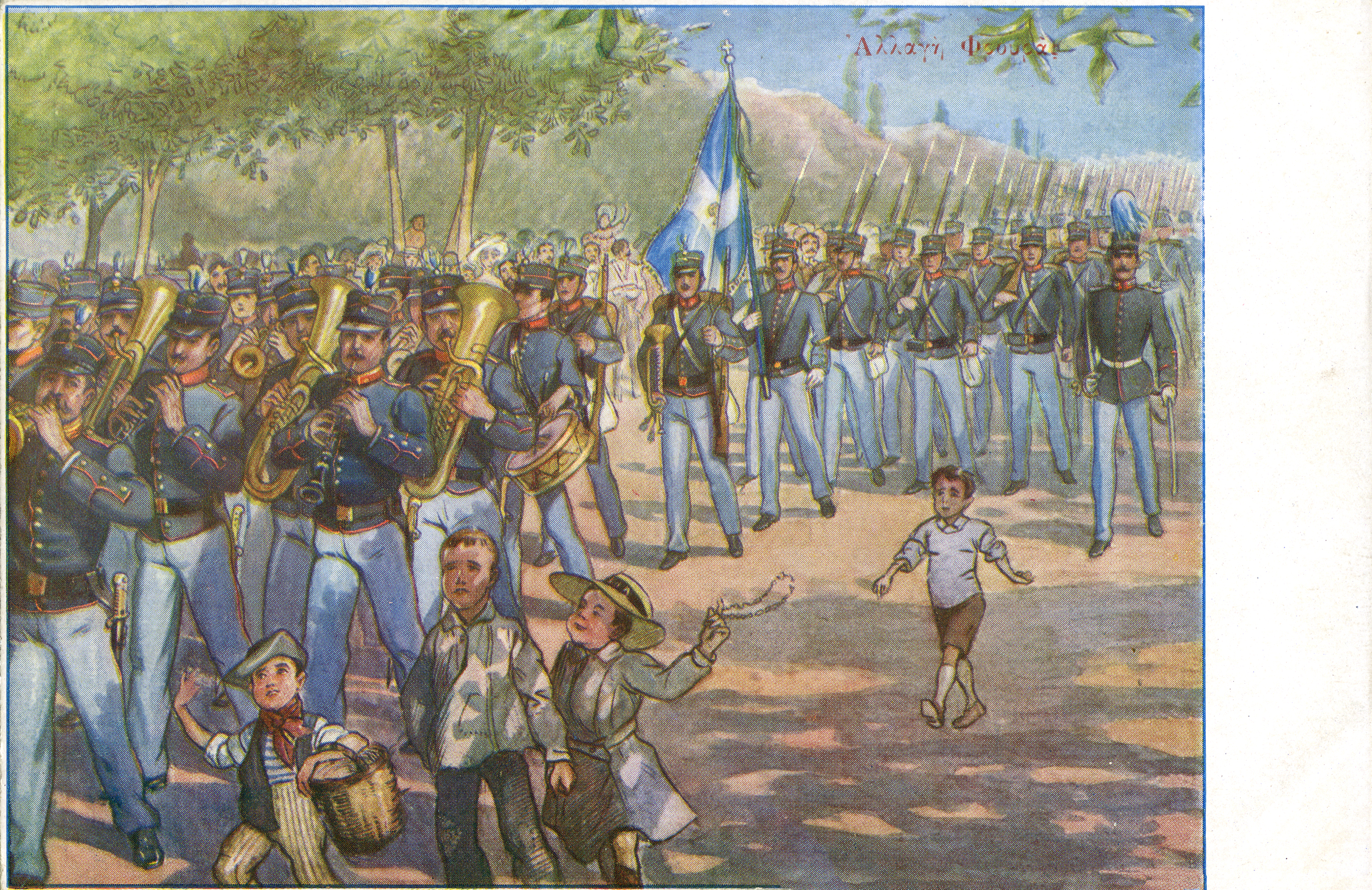 The change of the guards in Athens. Postcard published by Aspiotis. Reproduction of a painting by Panos Aravantinos.